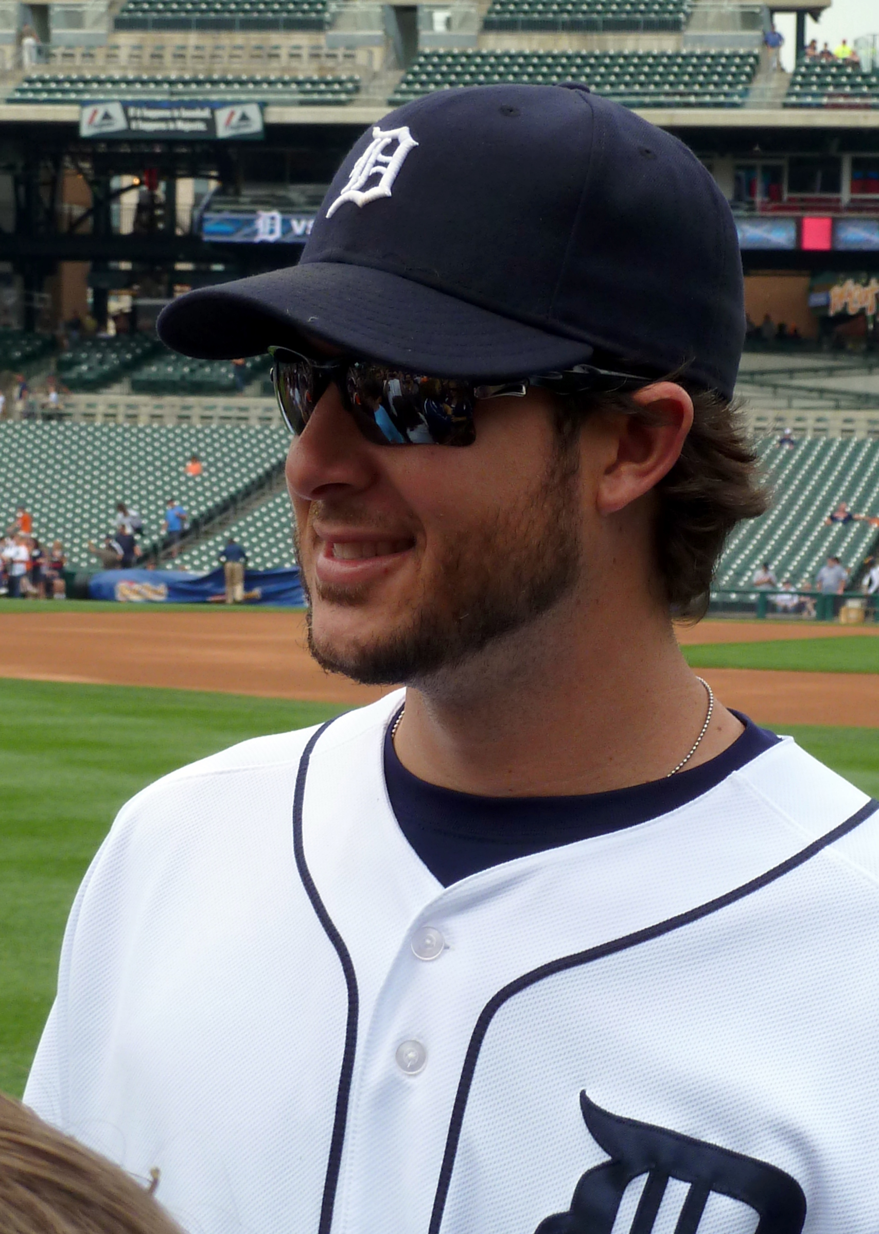 Darin Downs in 2013